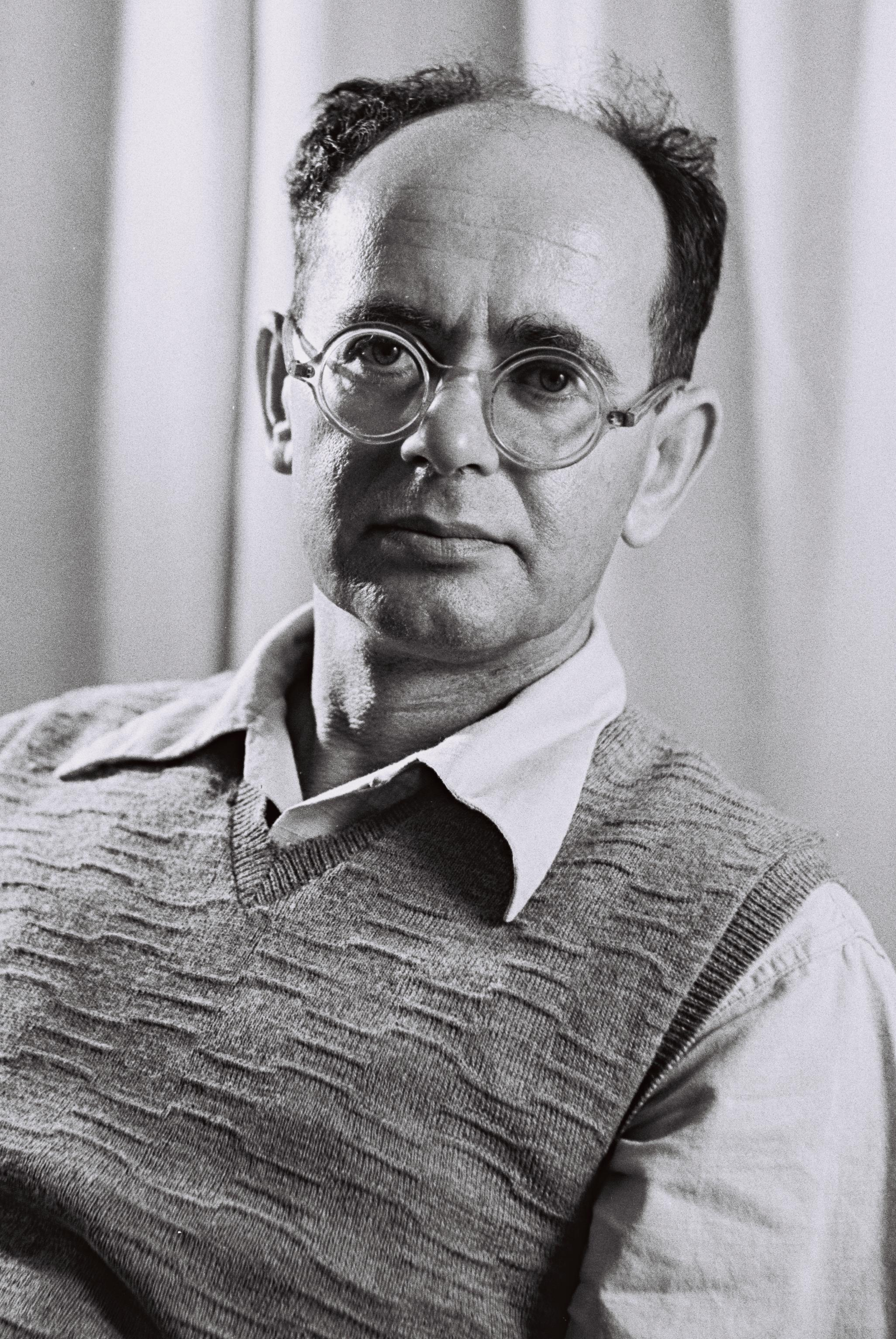 CHAIM BEN ASHER, MAPAI PARTY.